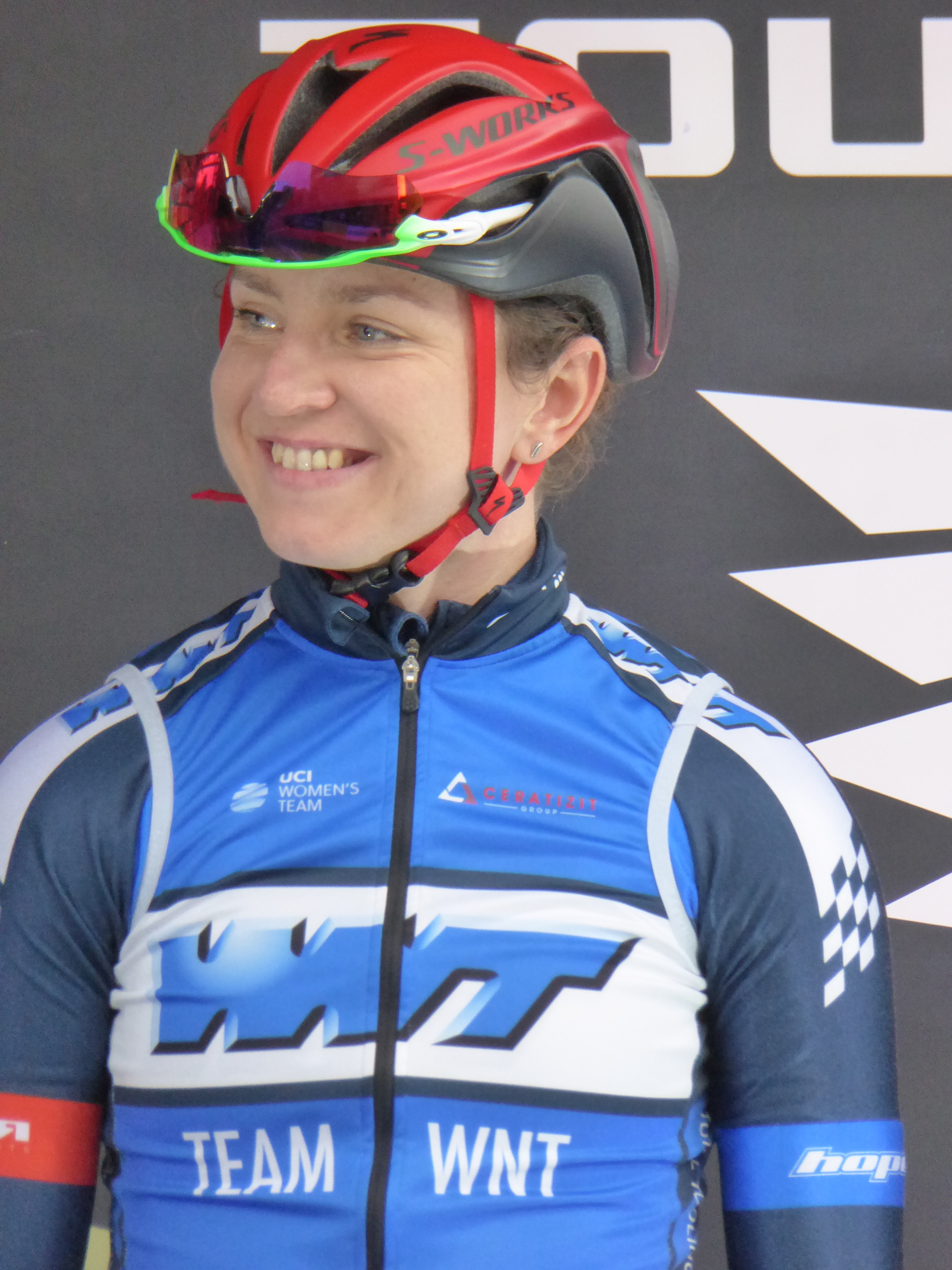 Lydia Boylan (Team WNT), prior to Round 7 of the Matrix Fitness GP Series in Motherwell, on 23 May 2017.